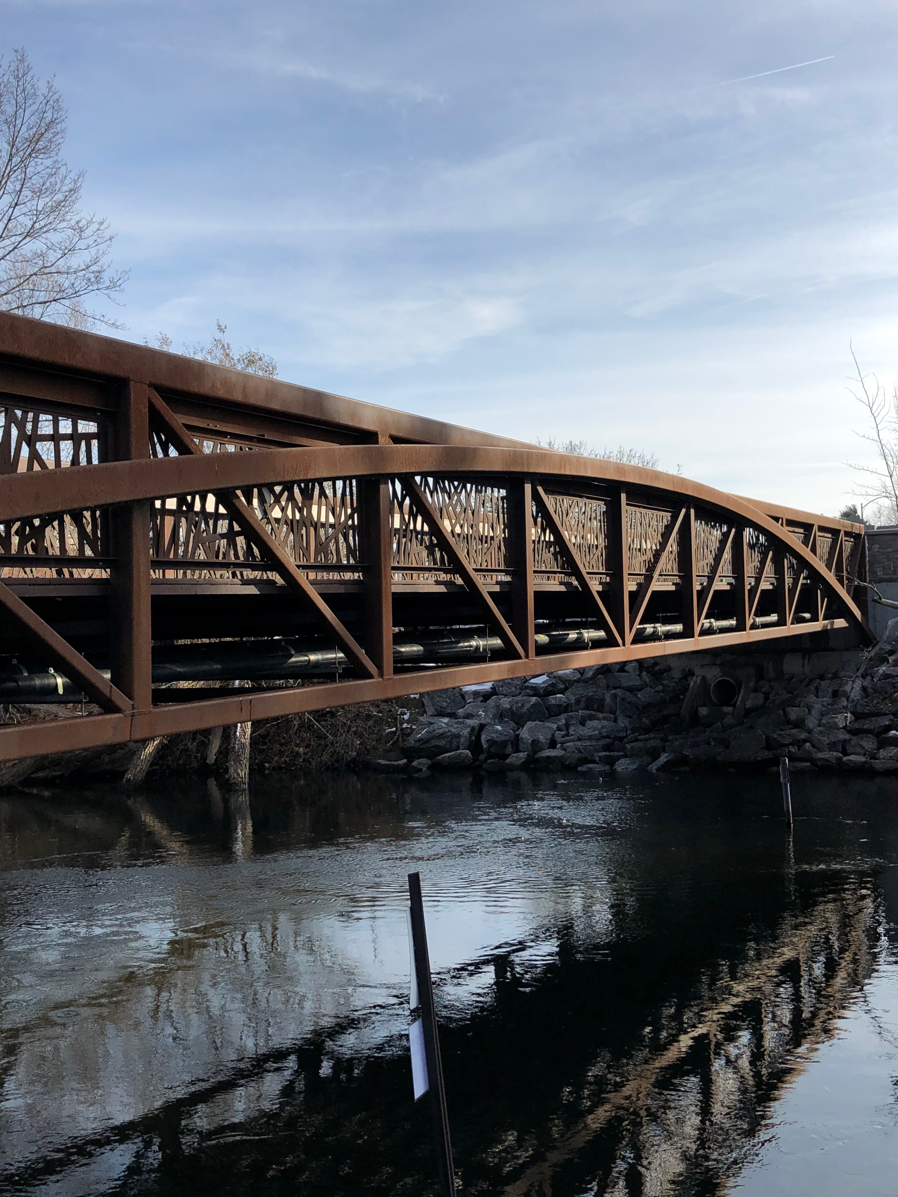 Pine Street Pedestrian Bridge crossing the Boardman River in Traverse City, Michigan